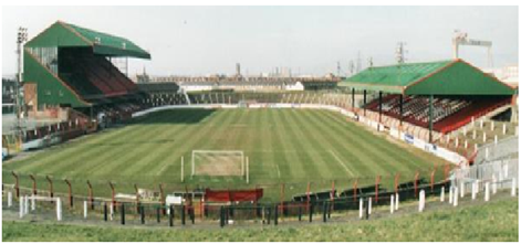 the oval